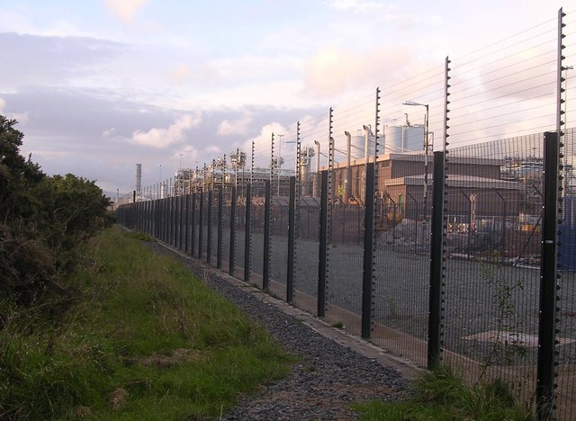 Gas Terminals, Barrow-in-Furness